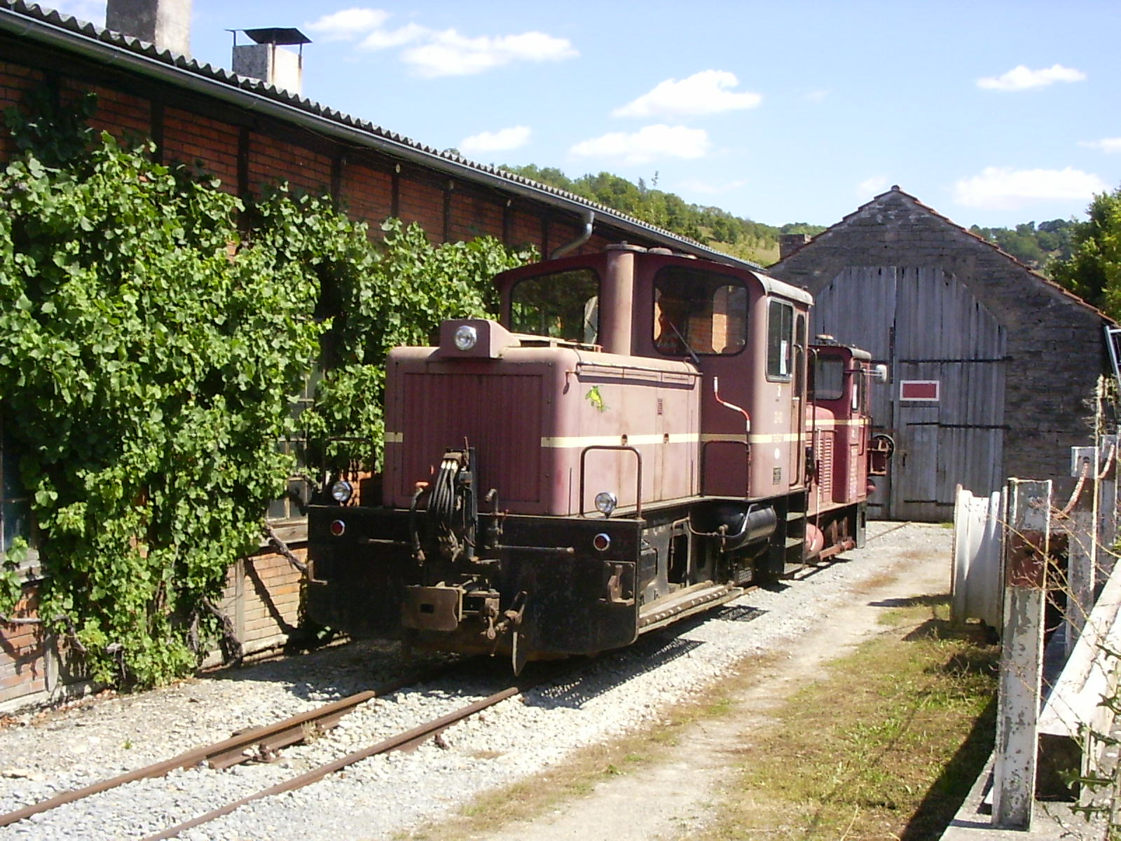 Narrow gauge diesel locomotives at Dörzbach train station